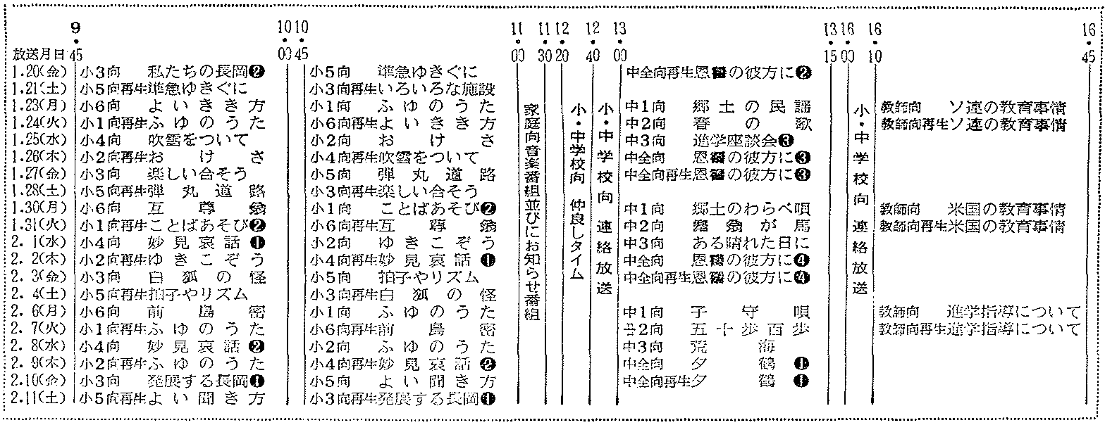 Timetable of Nagaoka Educational Broadcasting of January and February 1961